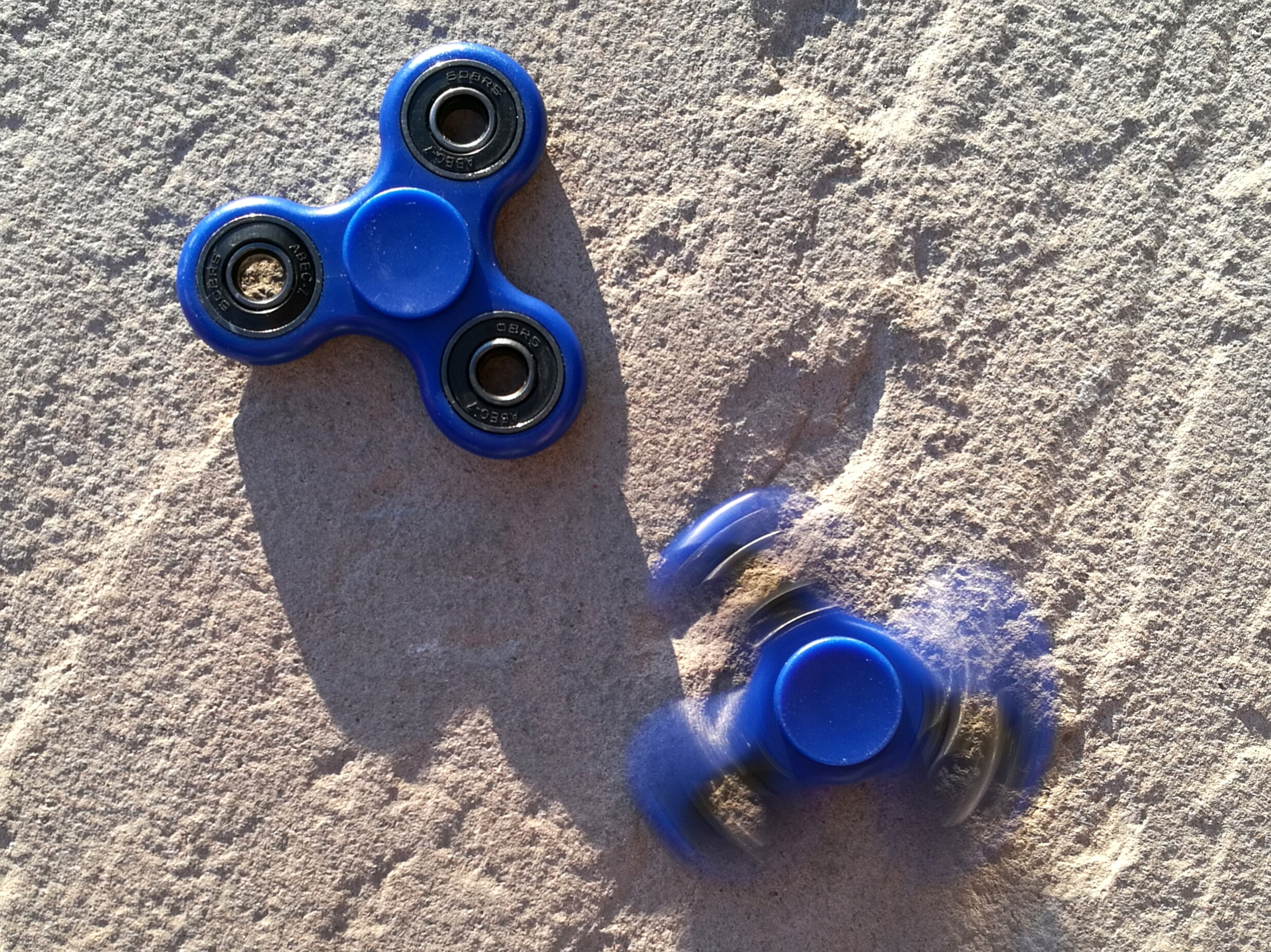 Fidget spinner, a type of toy intended to spin/rotate between two fingers.